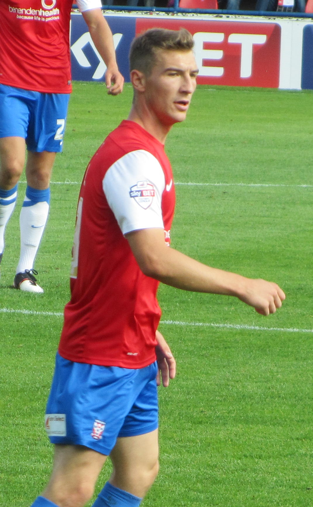 Craig Clay playing for York City against AFC Wimbledon at Bootham Crescent, York on 7 September 2013